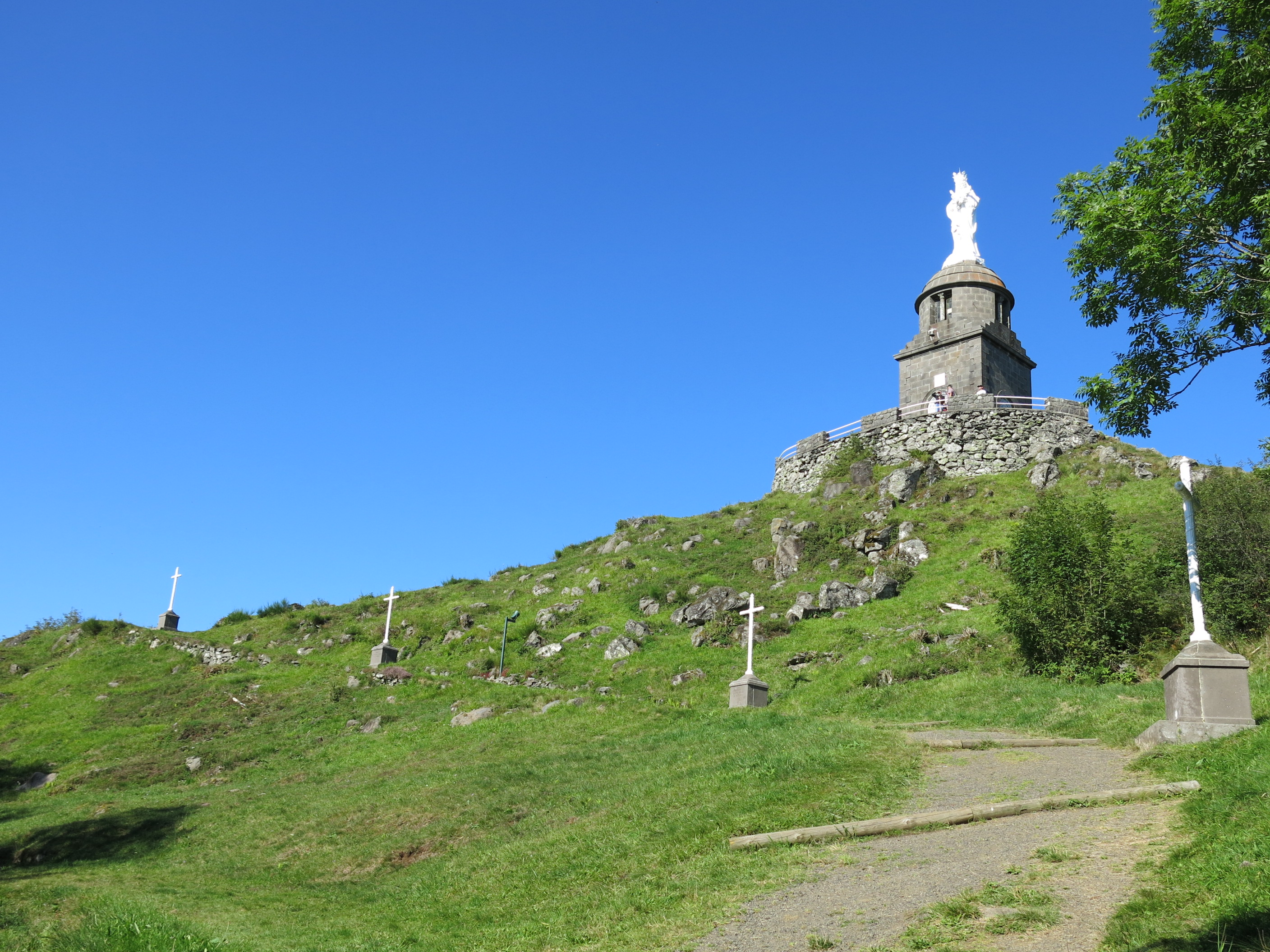 The stations of the Cross and the chapel of Notre-Dame de Natzy (Puy-de-Dôme, France).